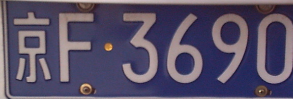 PRC Blue Licence Plate. DF08 2004 image. The last numbers have been cropped, to protect the identity of the vehicle owner or driver.